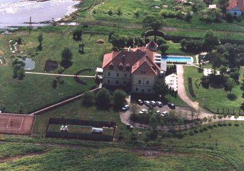 Kétpó, Hungary, aerial photography